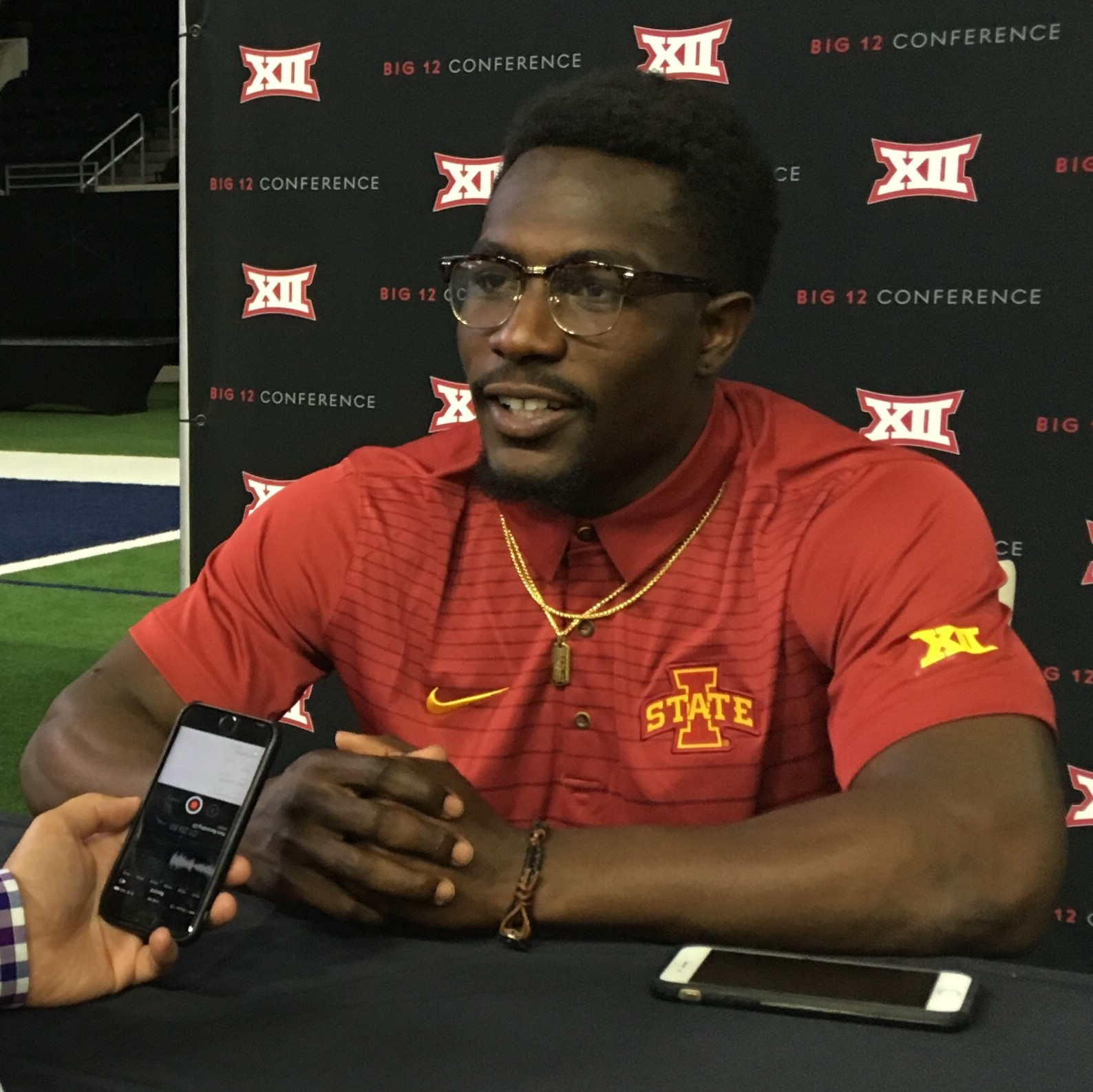 Brian Peavy, defensive back for the Iowa State Cyclones football team, at the 2017 Big 12 Conference Media Days in Frisco, Texas.